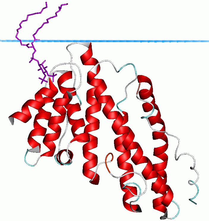 Protein image from OPM database